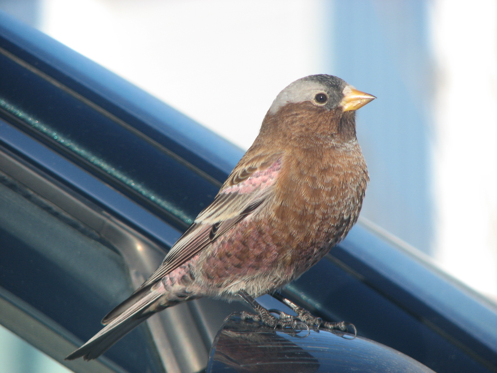 Gray-crowned Rosy Finch (Leucosticte tephrocotis) photographed by Steve Bachman on 8 January 2007 near Cloquet, Minnesota, USA.